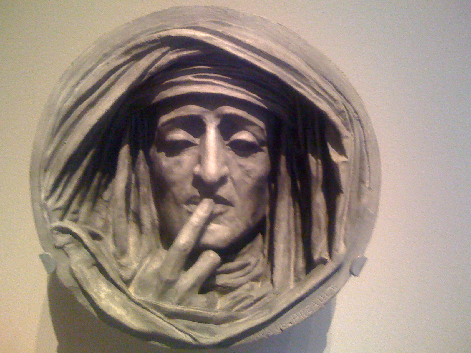 Le Silence, painted plaster sculpture by Auguste Preault ( 1842-1843)